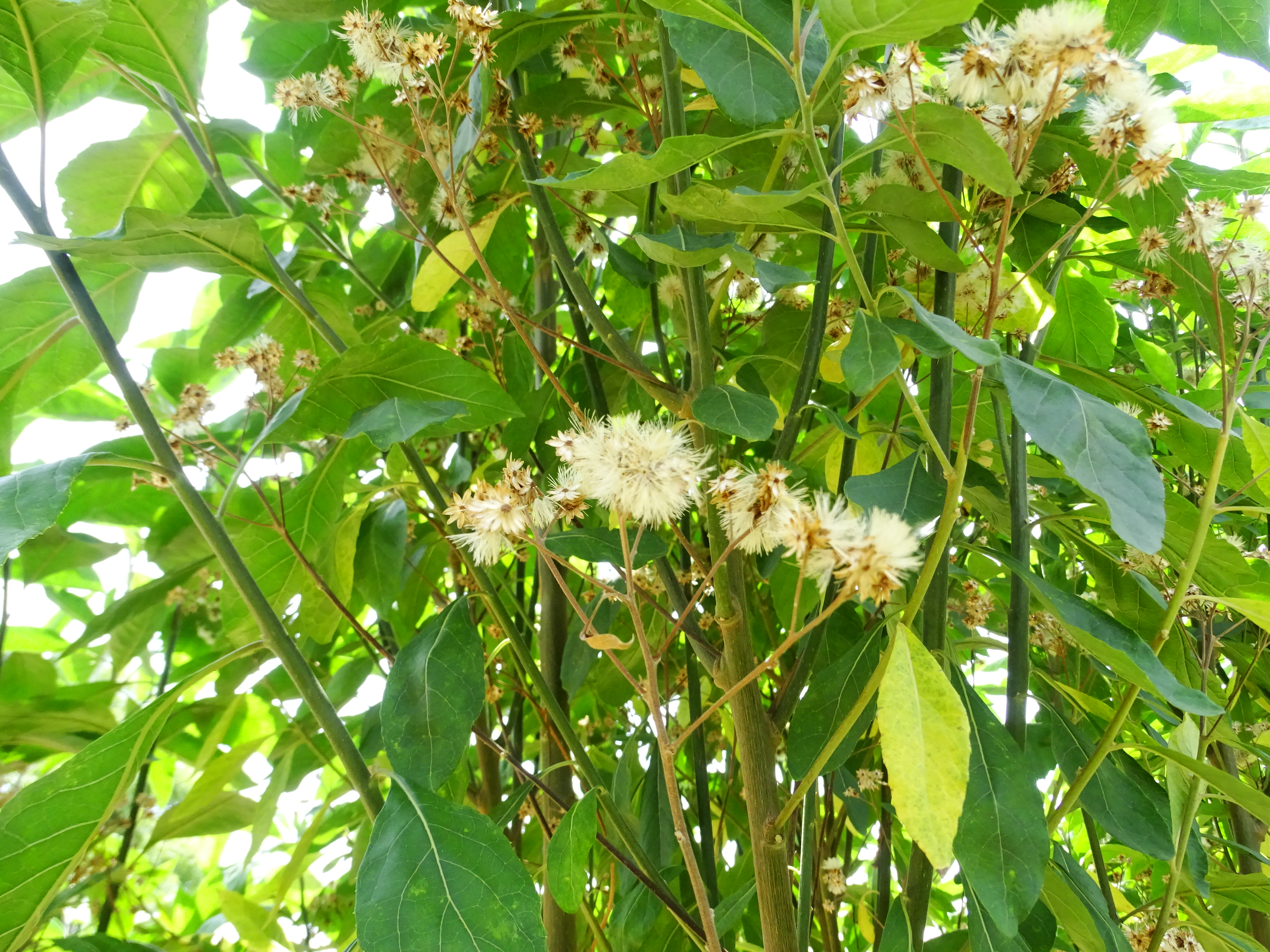 Vernonia amygdalina seen in Amruth Herbal Gardens (Transdisciplinary University) Bangalore